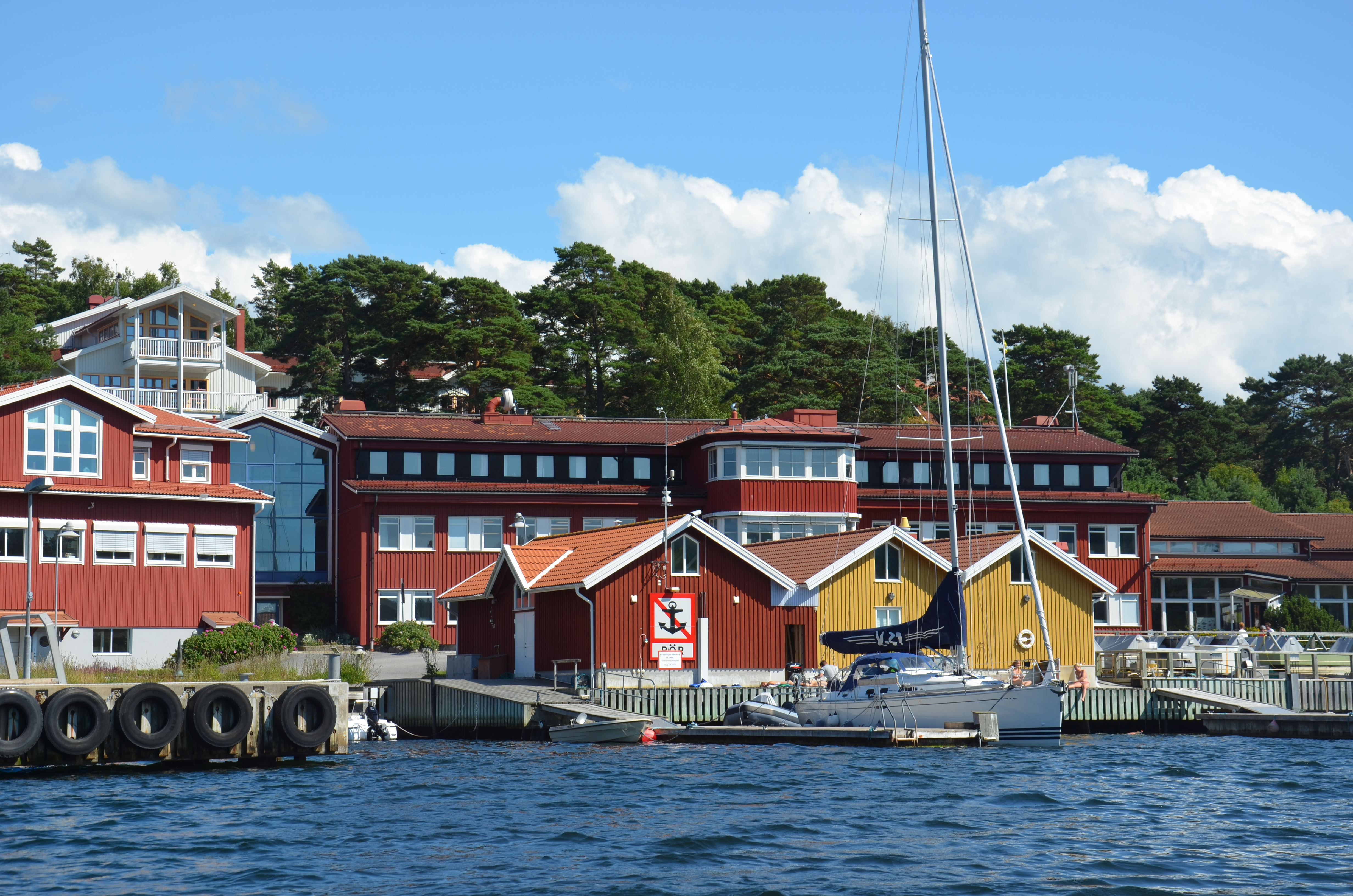 Tjärnö marinbiologiska laboratorium, Tjärnö, Sweden